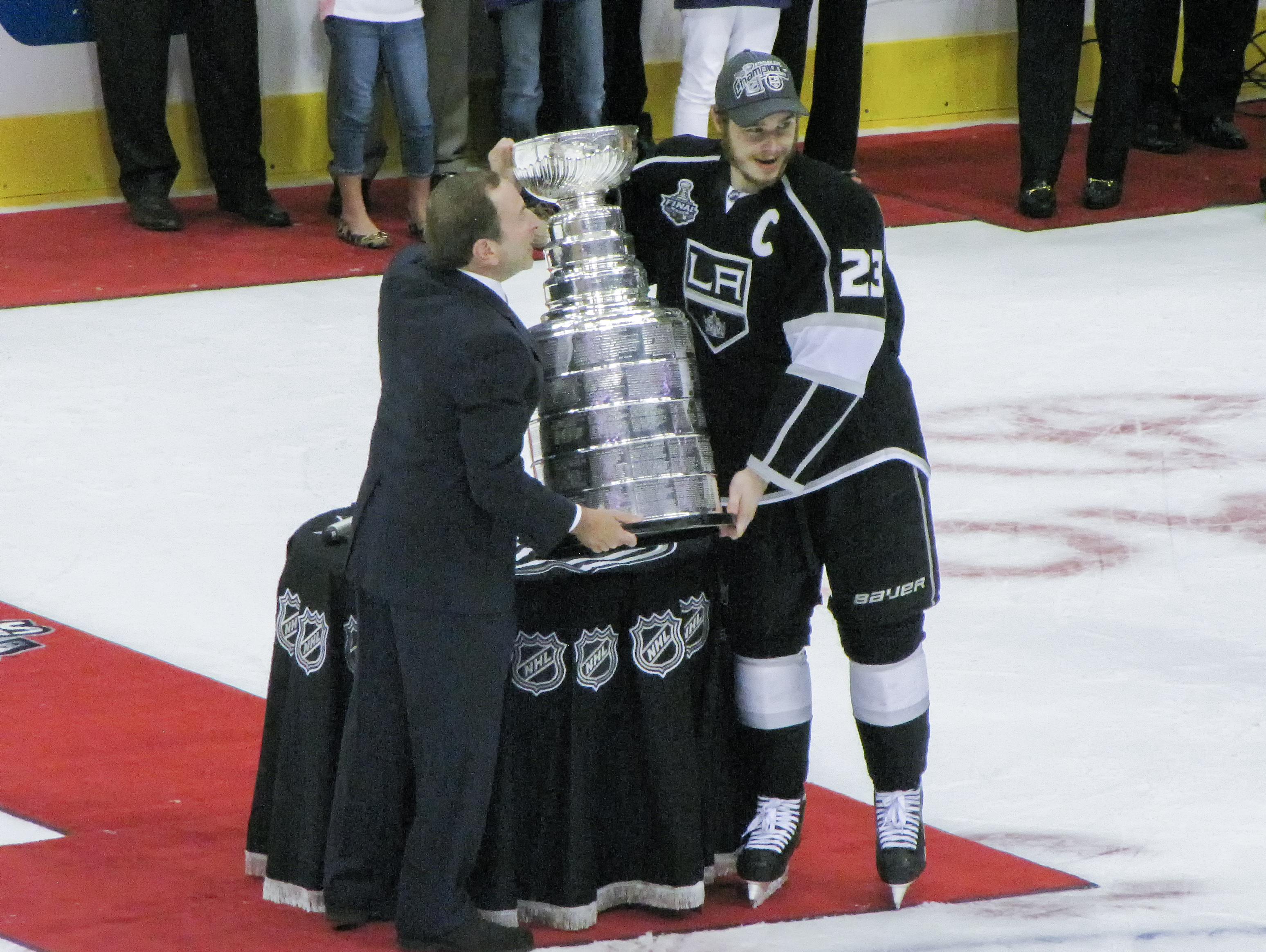 The Captain of the victorious team is given the privilege of being the first person to receive the Stanley Cup. In April 2013 the Kings posted a nice video about receiving The Stanley Cup